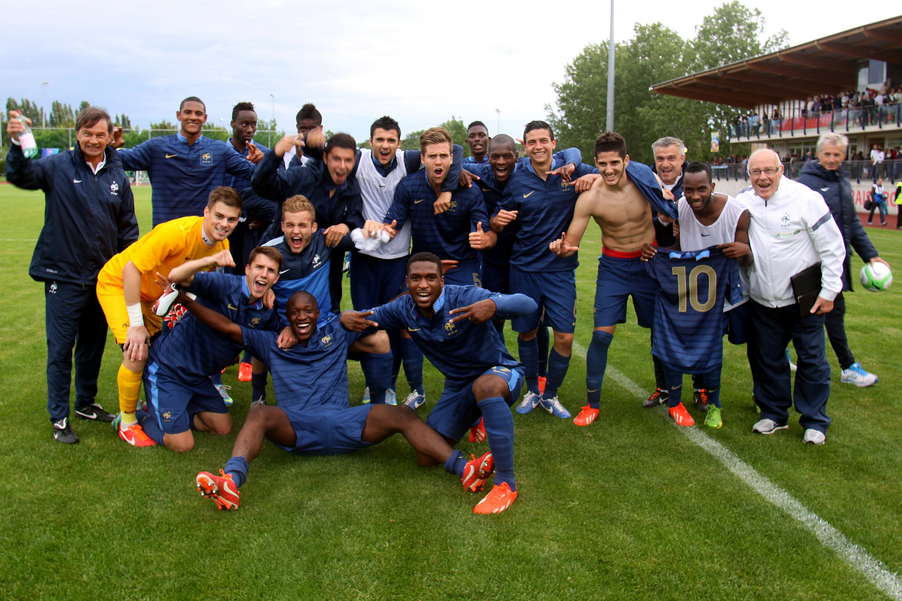 Qualification for the 2013 UEFA European Under-19 Football Championship qualification Austria vs. France (0:1) on 2013-2013-06-10 in Traiskirchen. – The photo shows the team after the math.